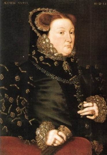 Lady Frances Brandon. Copy after a wrongly identified portrait of Lady Dacre